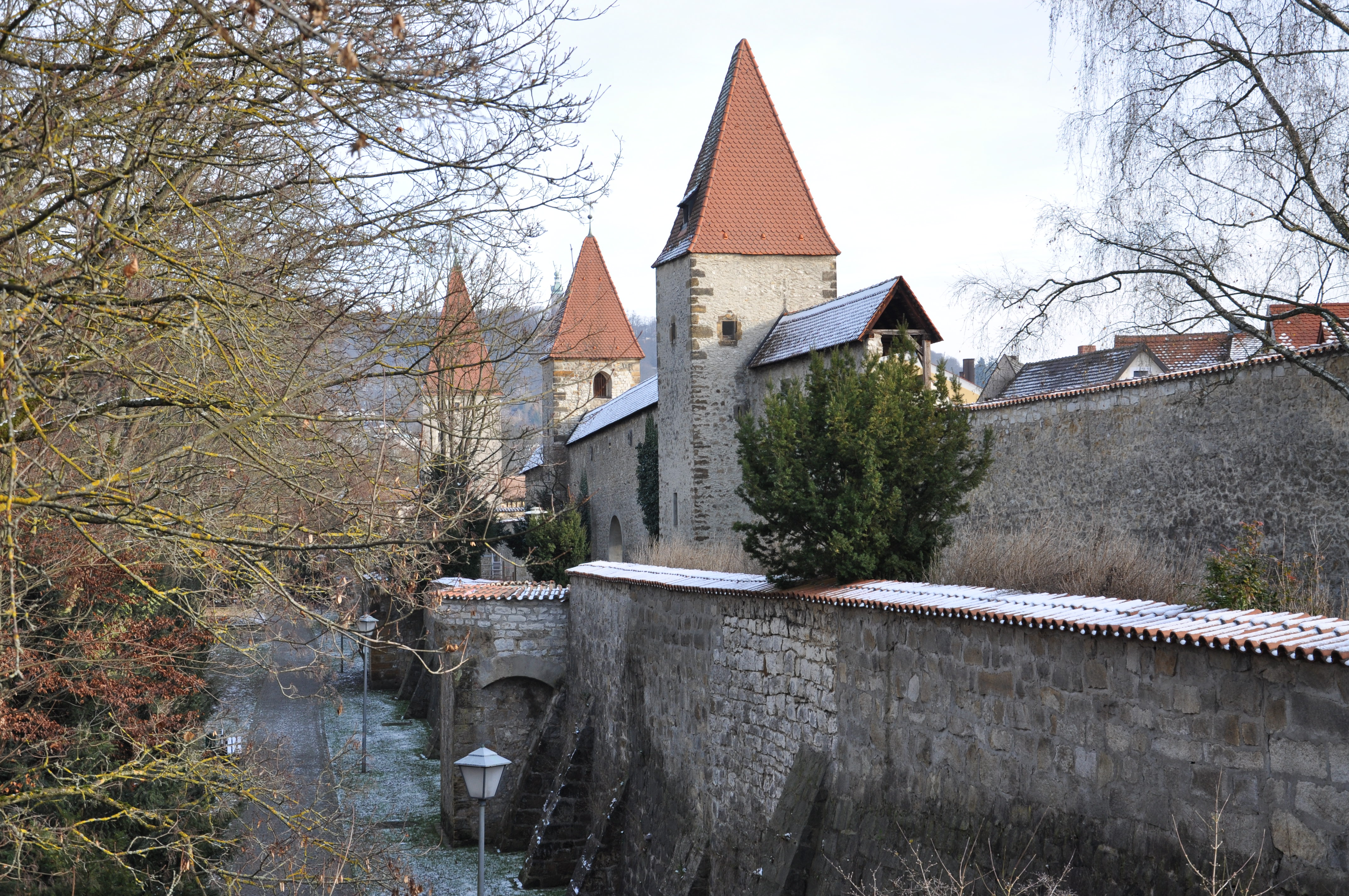 This is a photograph of an architectural monument.